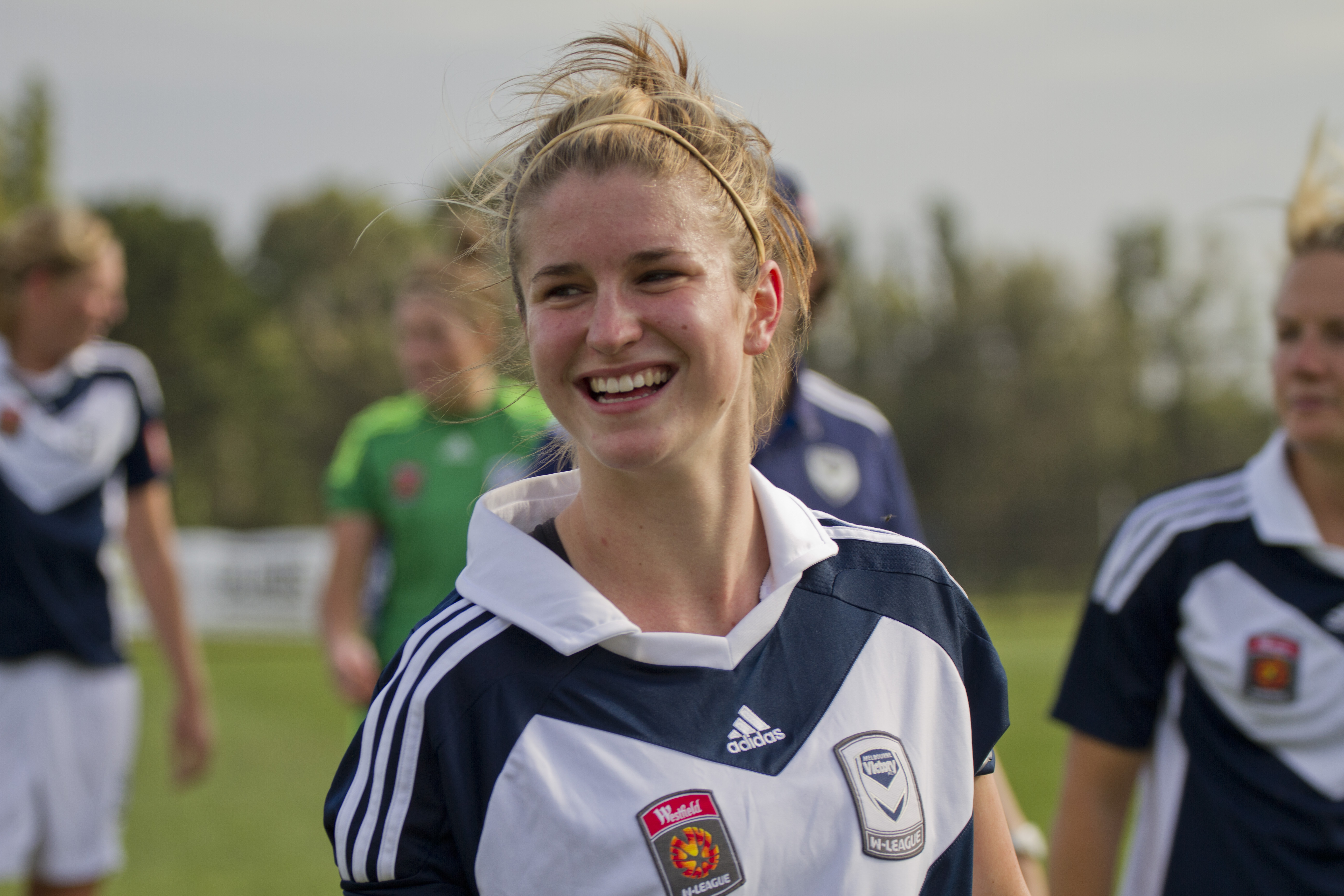 Caitlin Friend, striker for Melbourne Victory Women.